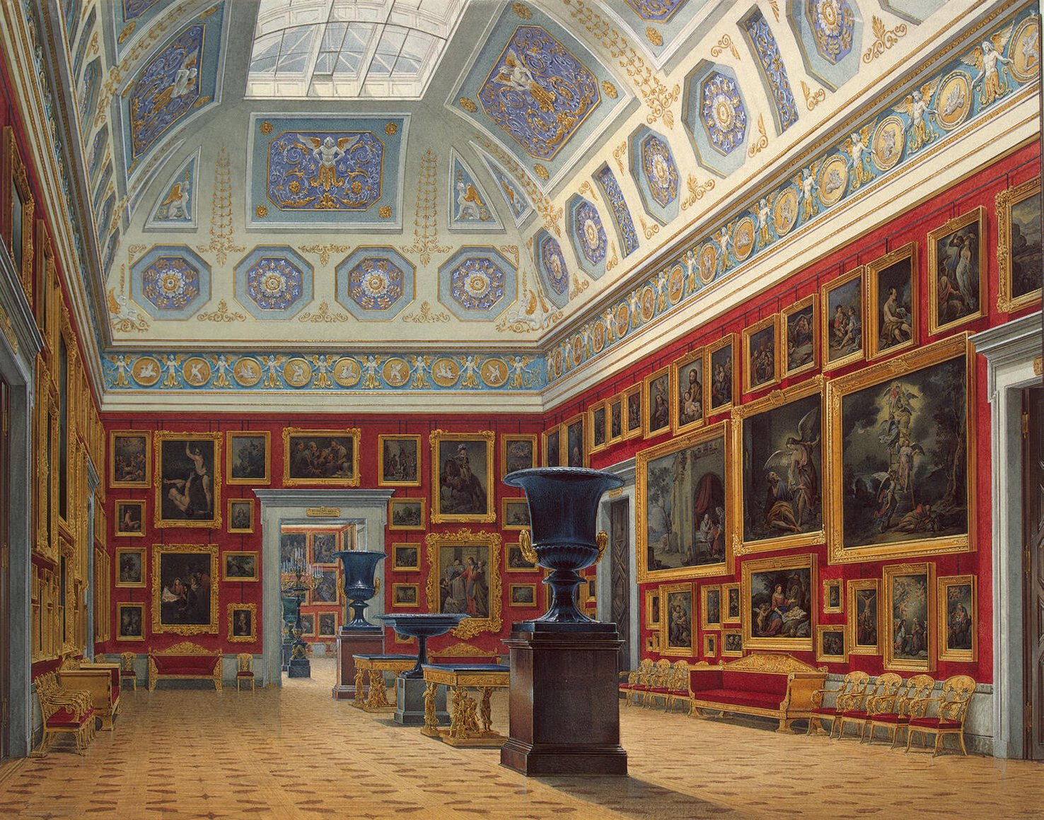 Interiors of the New Hermitage. The Room of Spanish Art